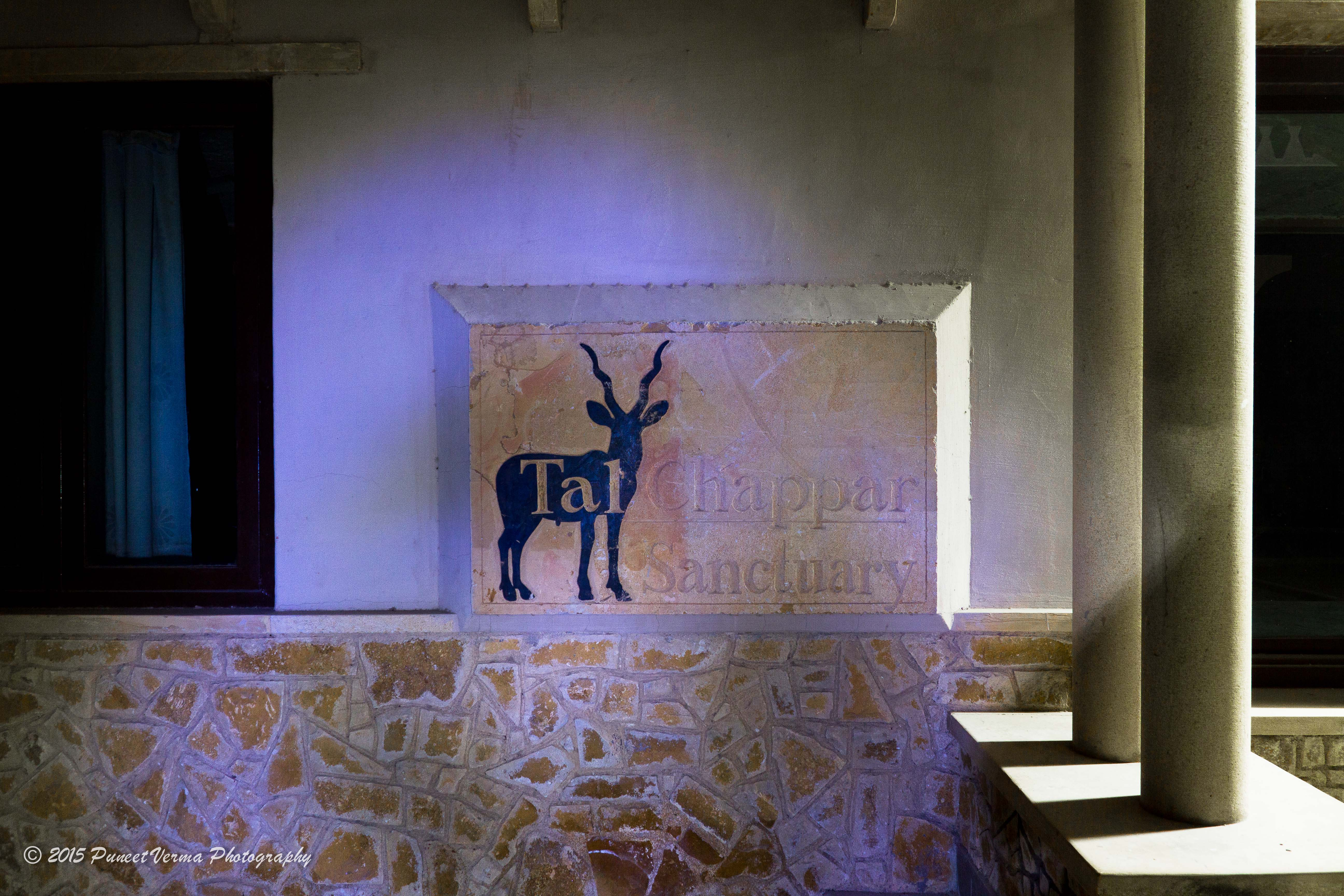 Tal Chappar Sanctuary